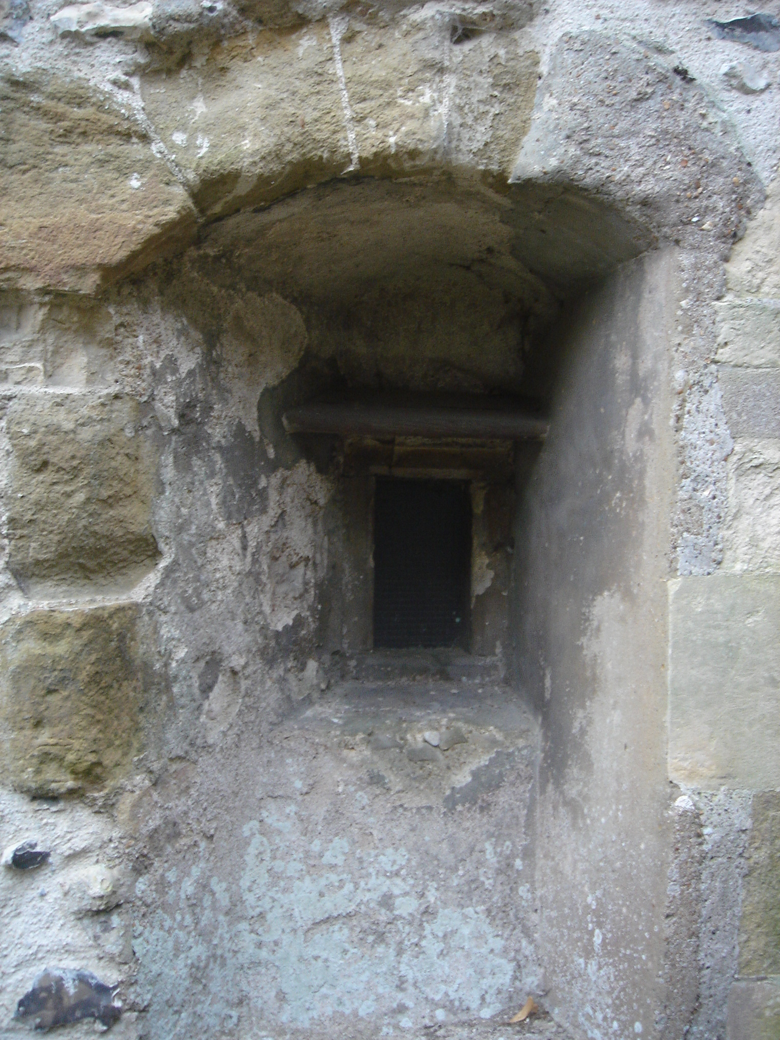 A window of the anchorite's cell at St Julian's parish church, Kingston Buci, Shoreham-by-Sea, West Sussex, England. The cell does not survive but this window and an adjacent door do.